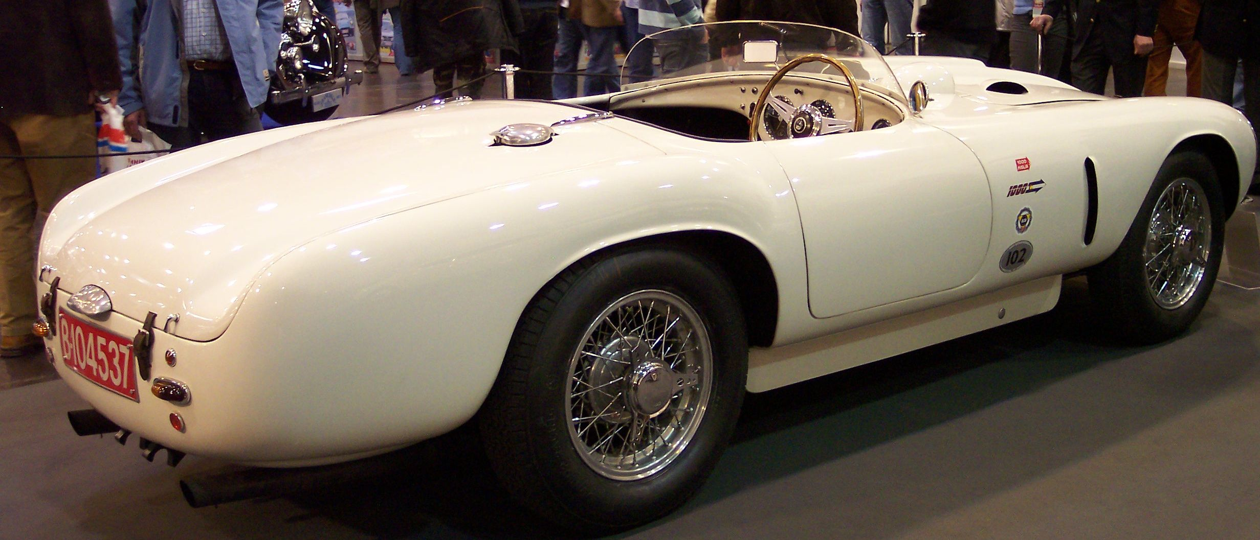 Techno-Classica 2007, Z 102 BS 3.2 Competition Touring Spyder, 198 kw (270 HP) This car is one of three produced cars. After being crashed at Le Mans in 1953, it was repaired at the factory and could participate at races until 1955. In 1963 it was sent to America. The present owner bought it in 1981.